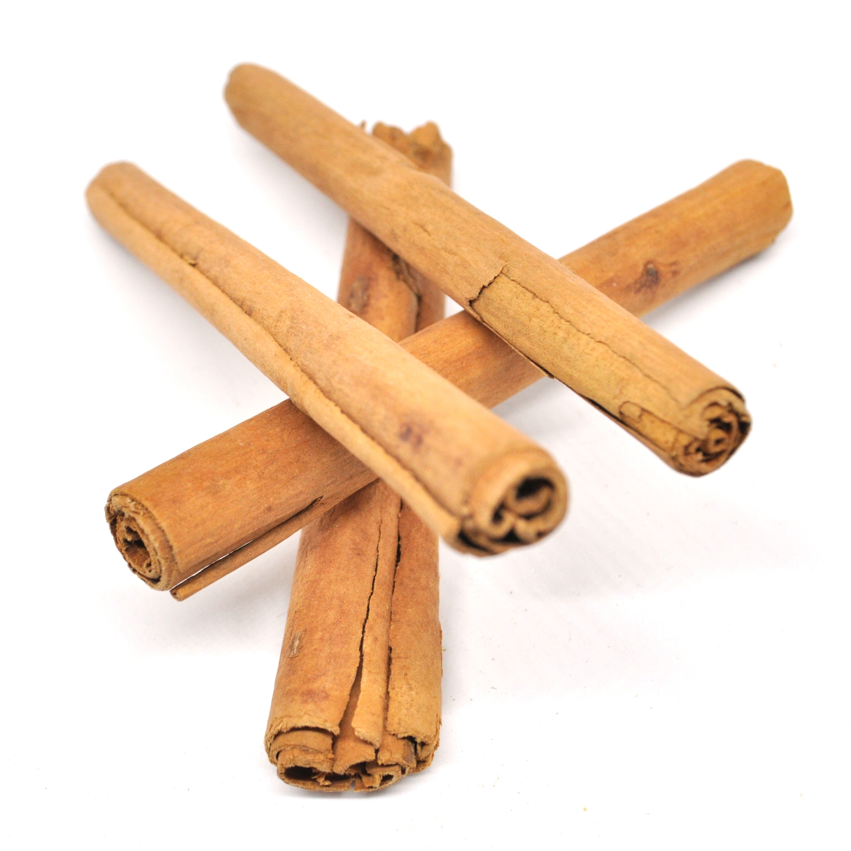 Dried cinamon bark, from Madagascar.